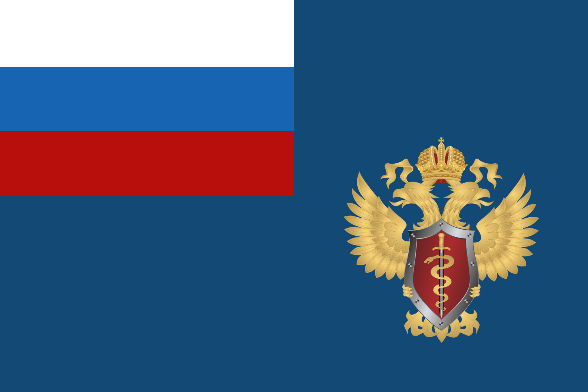 Flag of Federal Drug Control Service of Russia of drugs, 2004